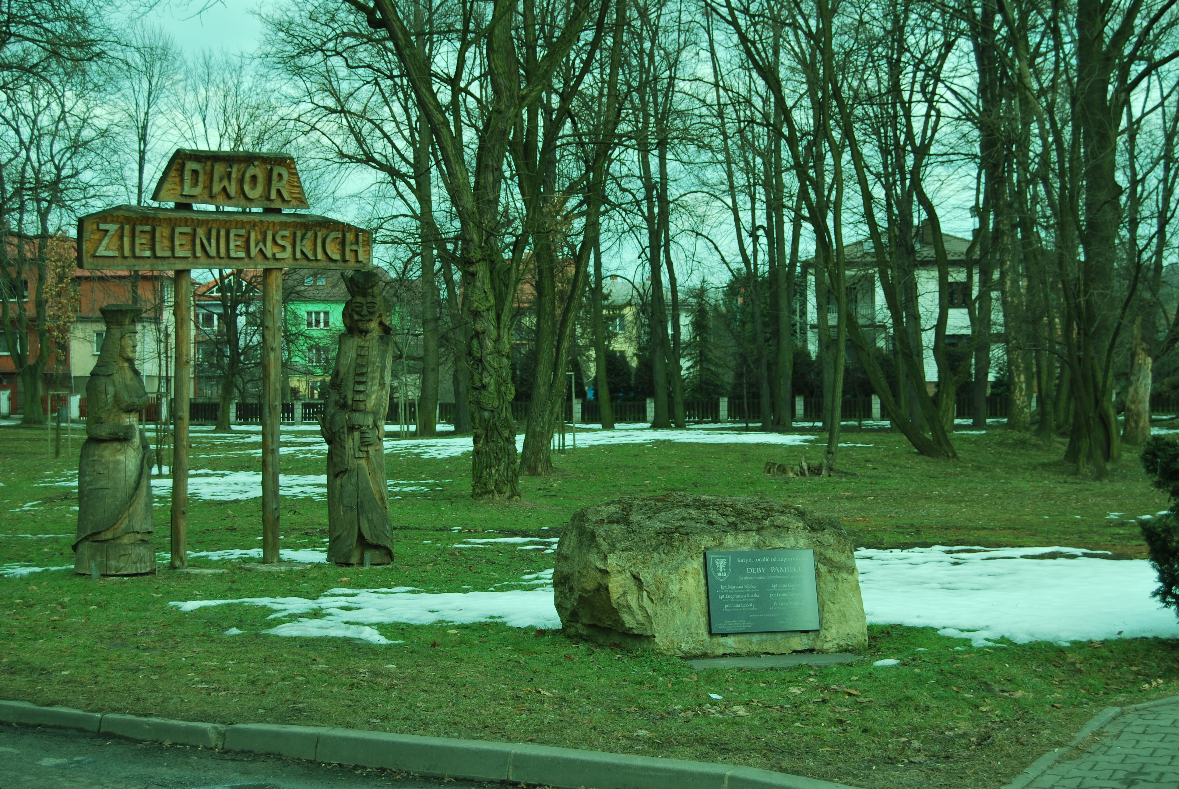 Memory Oaks in Trzebinia in Trzebinia, 2015 Dęby Pamięci w Trzebinia, 2015.